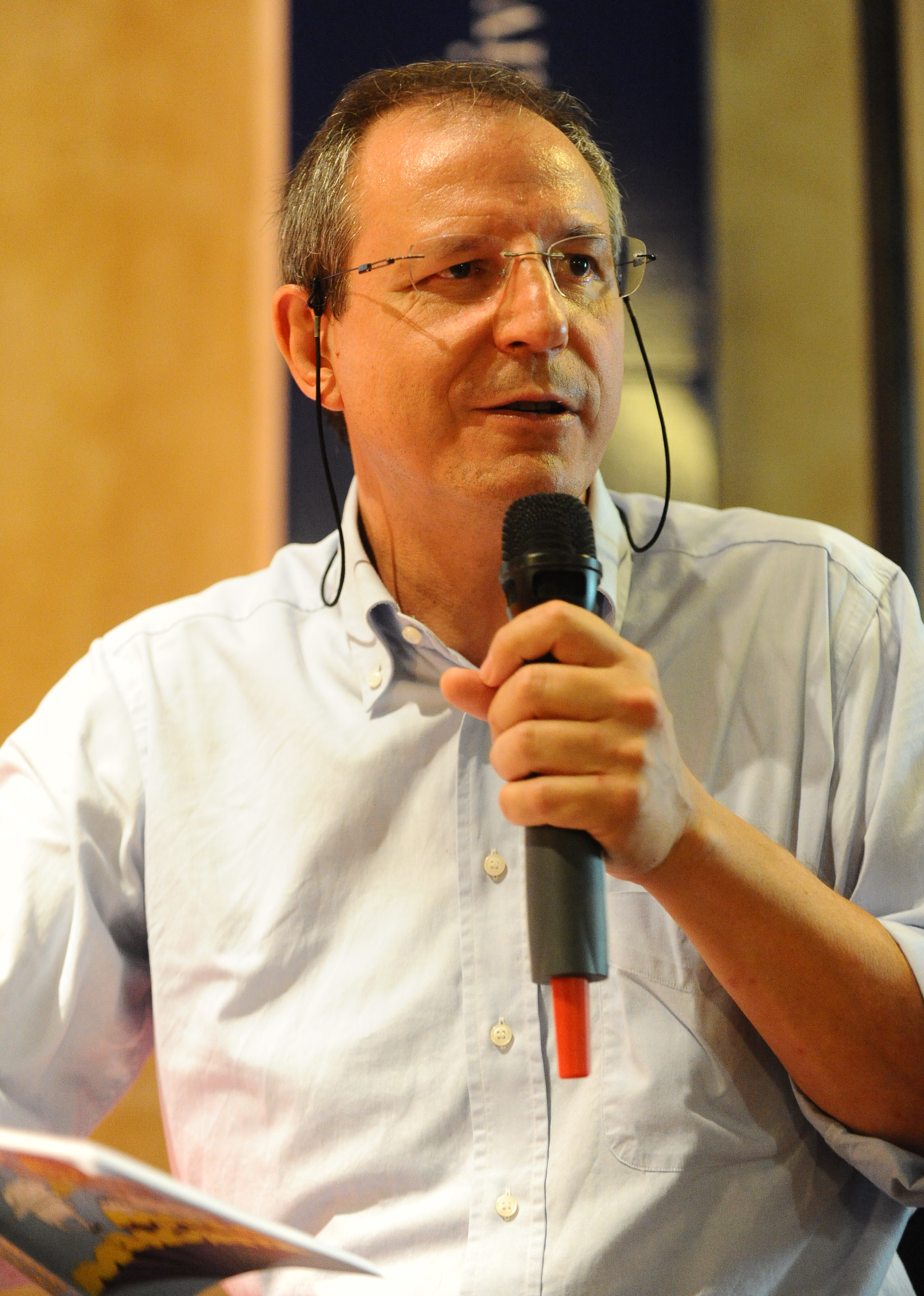 Luca Raffaelli at Festivaletteratura in Mantua.